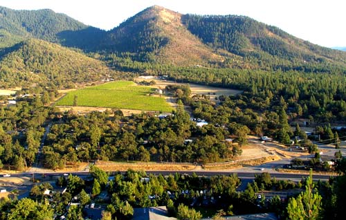 Ruch is a community next to Jacksonville, Oregon. Hilltop view from summer of 2005. Vineyard on opposite hillside. To the right side, is the intersection of Hwy. 238, and Upper Applegate Road which leads to Applegate Lake.